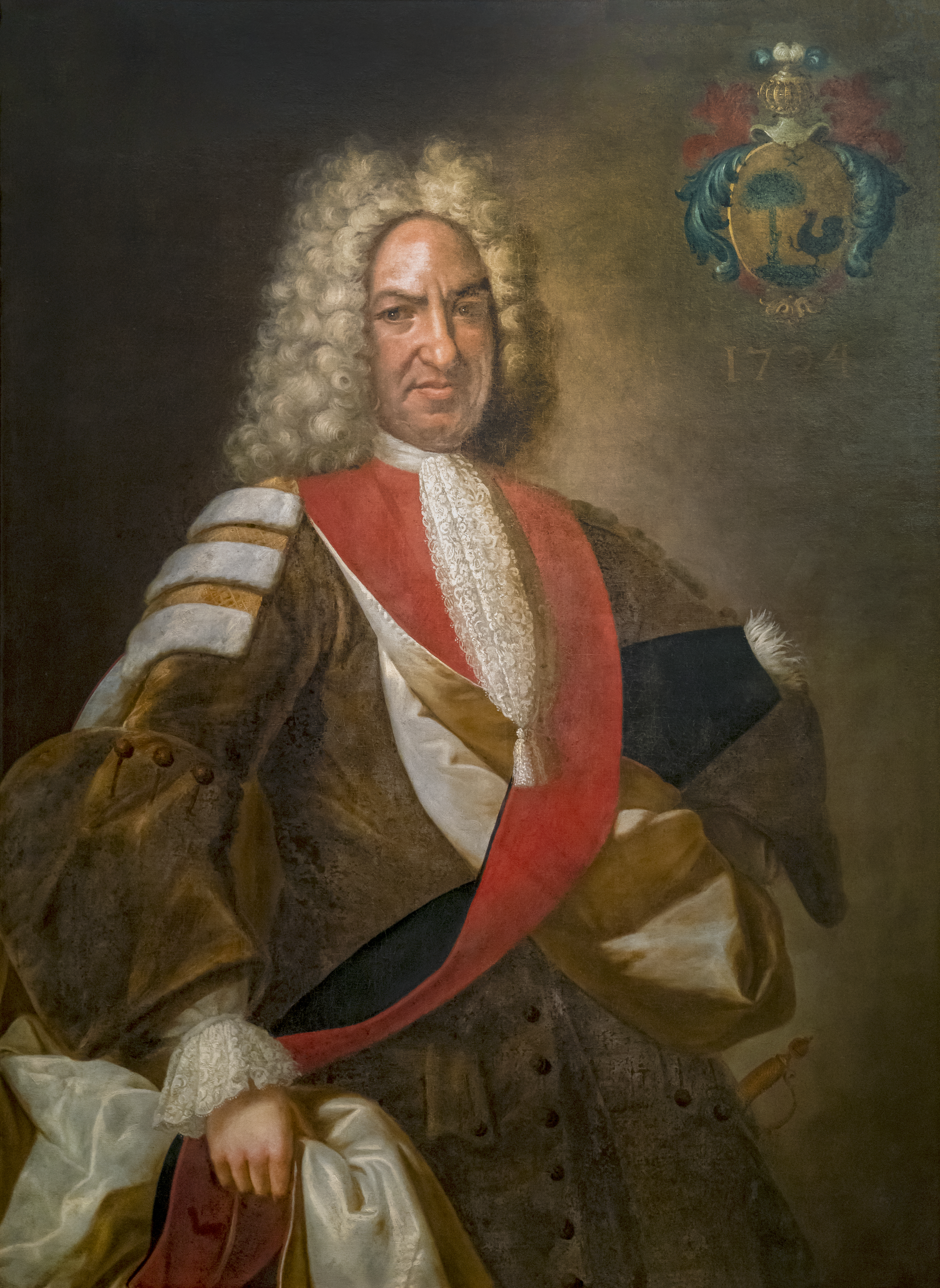 Portrait of Pierre II of Poulhariez, Capitoul of Toulouse in 1724.